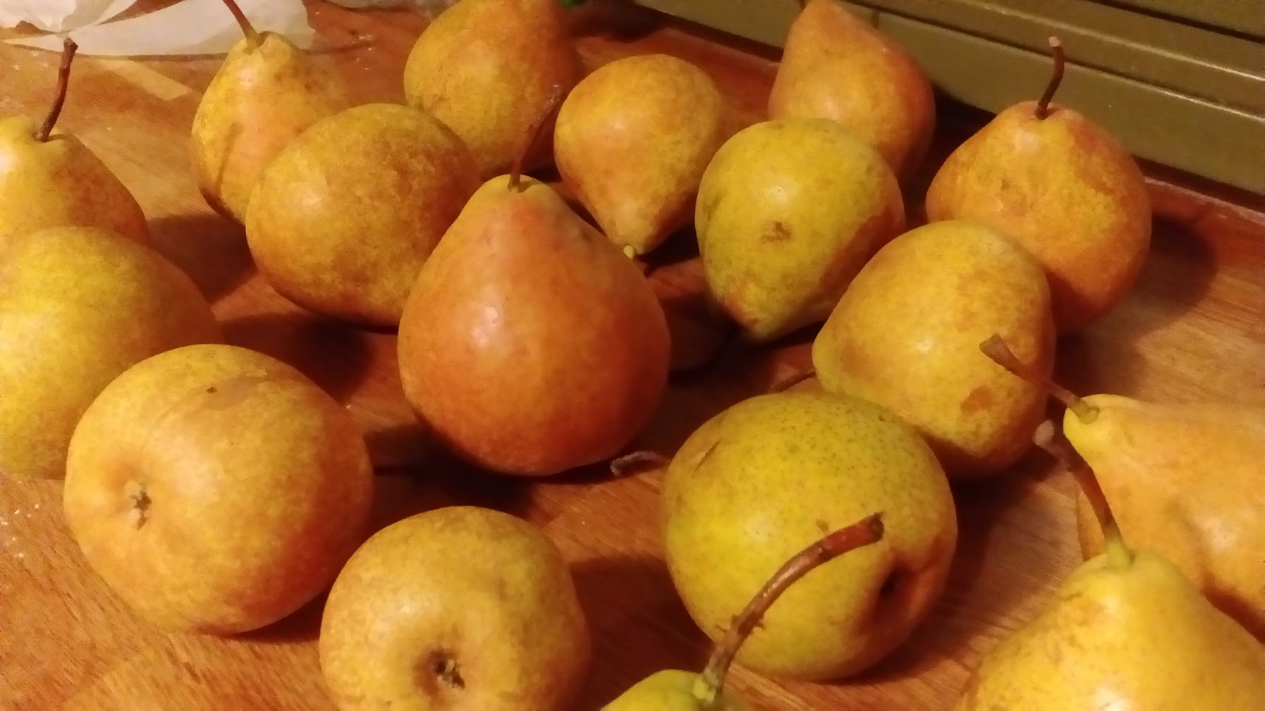 Madernassa pears, picked and ready to cook